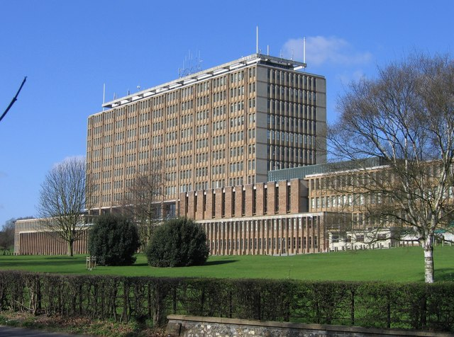 Norfolk County Hall, Martineau Lane At the extreme south-west corner of the grid-square stands Norfolk County Hall which was opened on 24th May 1968 by H.M. Queen Elizabeth II. Architect: Reginald Uren. The land on which it was built was once part of the estate of Dr Philip Meadows Martineau (1752-1829), an eminent surgeon who practised for over 50 years at the Norfolk and Norwich Hospital and after whom Martineau Lane was named.